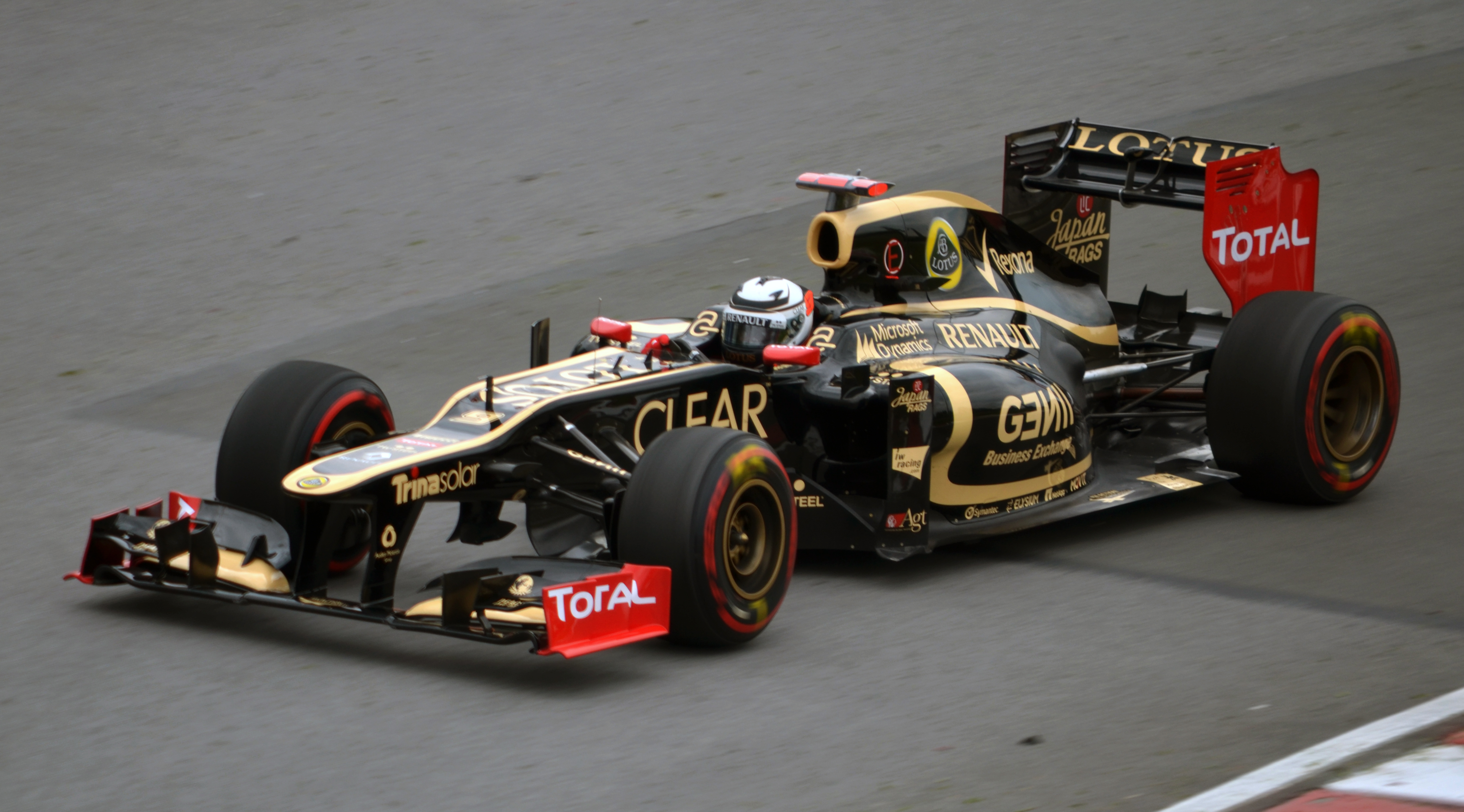 Kimi Raikkonen in the Lotus - Renault E20 exits turn 9 at Circuit Gilles Villeneuve during first practice for the 2012 Canadian Grand Prix